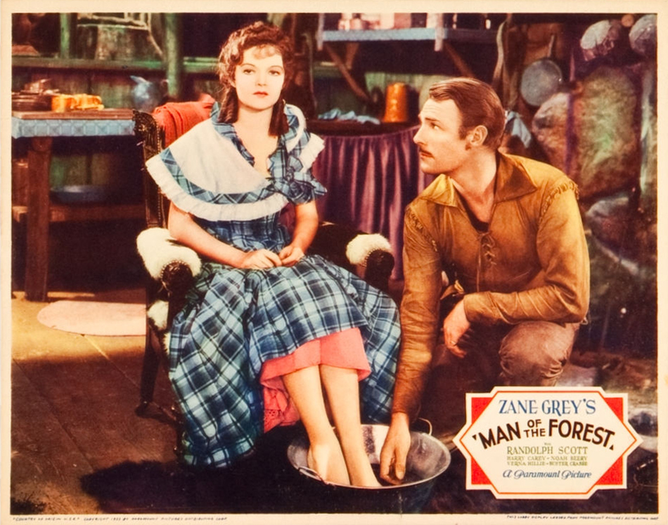 Man of the Forest, directed by Henry Hathaway (1933), with Randolph Scott and Verna Hillie